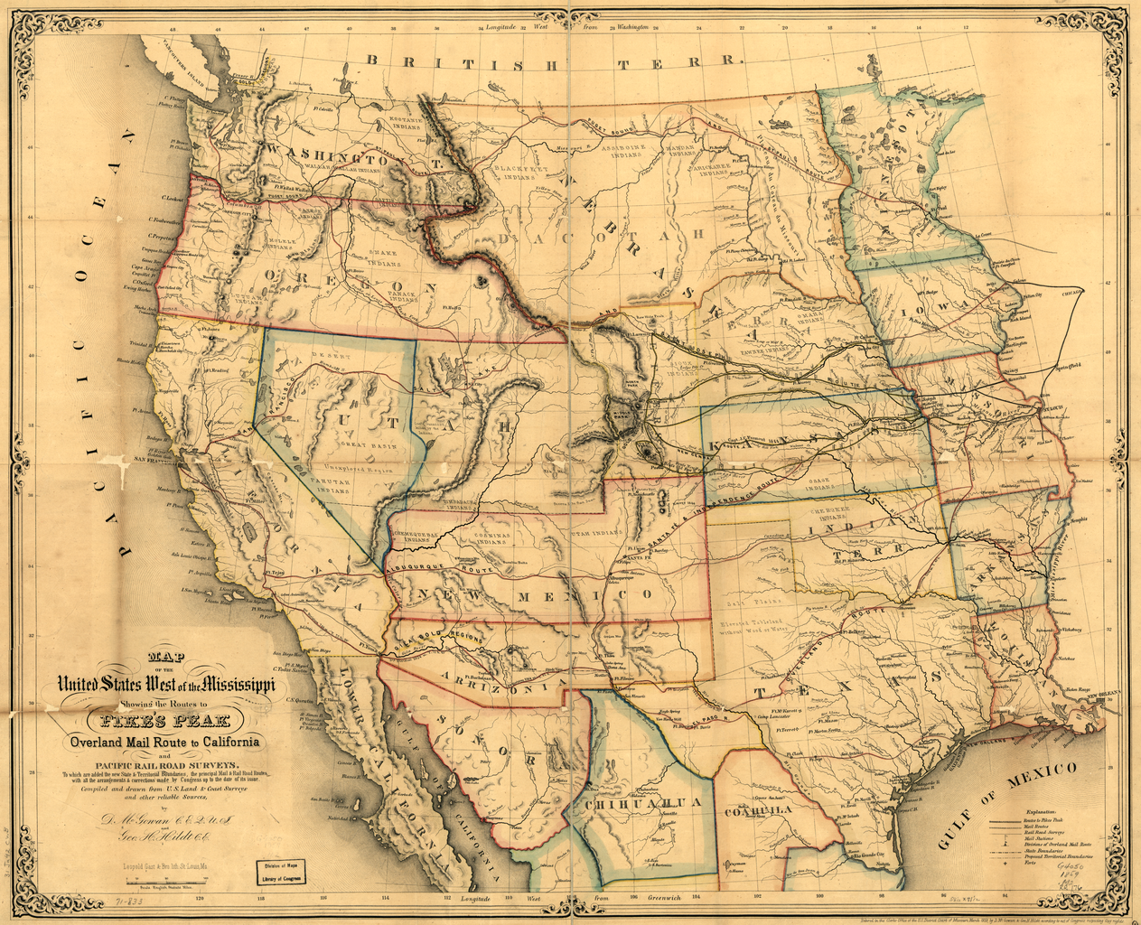 D. McGowan and George H. Hildt’s 1859 map of the United States west of the Mississippi was based on an official map of 1857 produced by the Pacific railroad surveys. In the 1850s, Americans concluded that they needed to build a transcontinental railroad linking the east and center of the country with the Pacific coast. The U.S. Congress authorized the army topographical service to undertake engineering surveys and general assessments of five possible routes: from Saint Paul, Minnesota; from Council Bluffs, Iowa; from Saint Louis, Missouri; from Memphis, Tennessee; and from Vicksburg, Mississippi. Cities, states, and business groups competed fiercely to be the eastern terminus of the transcontinental railroad. This map offers an excellent example of a promotional map used to encourage settlement and investment in the American West. Published in Saint Louis, it emphasizes potential routes emanating from that city. The focus on Pike’s Peak highlights the recent discovery of gold in Colorado. The map is hand-colored, framed in decorative borders, and shows drainage, state boundaries, cities and towns, and transportation and communication networks. Emigration and immigration; Pikes Peak (Colorado); Post roads; Railroads